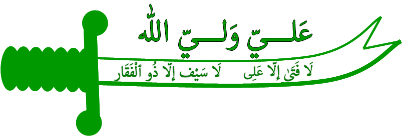 Depiction of a Shi'ite "Zulfiqar" talisman. Zulfiqar (Classical Arabic Dhu al-Fiqaar) was the two-pointed sword of Ali ibn Abi Talib. The text above the sword reads "Ali is the friend (wali) of God (Allah)". The inscription on the sword's blade reads "There is no hero (youth) except Ali; There is no sword except Dhulfiqar"